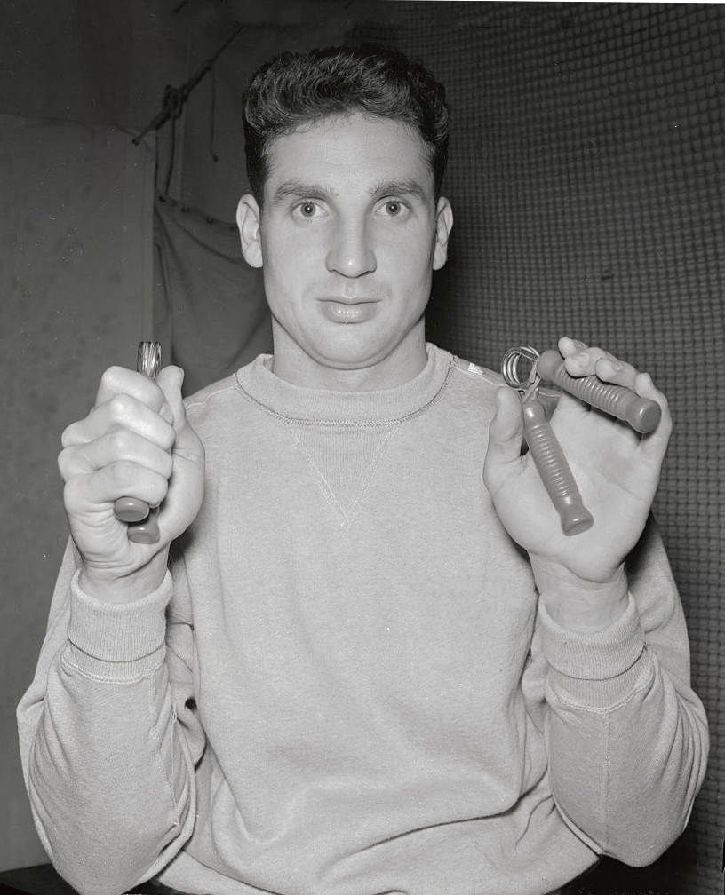 1949 PRESS PHOTO BOBBY THOMSON, NEW YORK GIANTS' OUTFIELDER